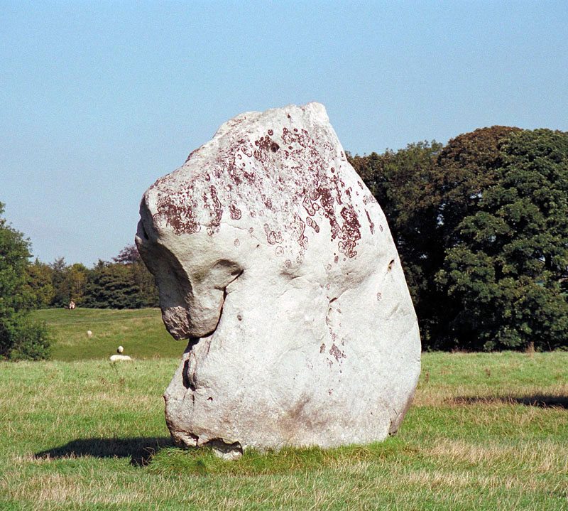 Standing stone at Avebury, Wiltshire, U.K.